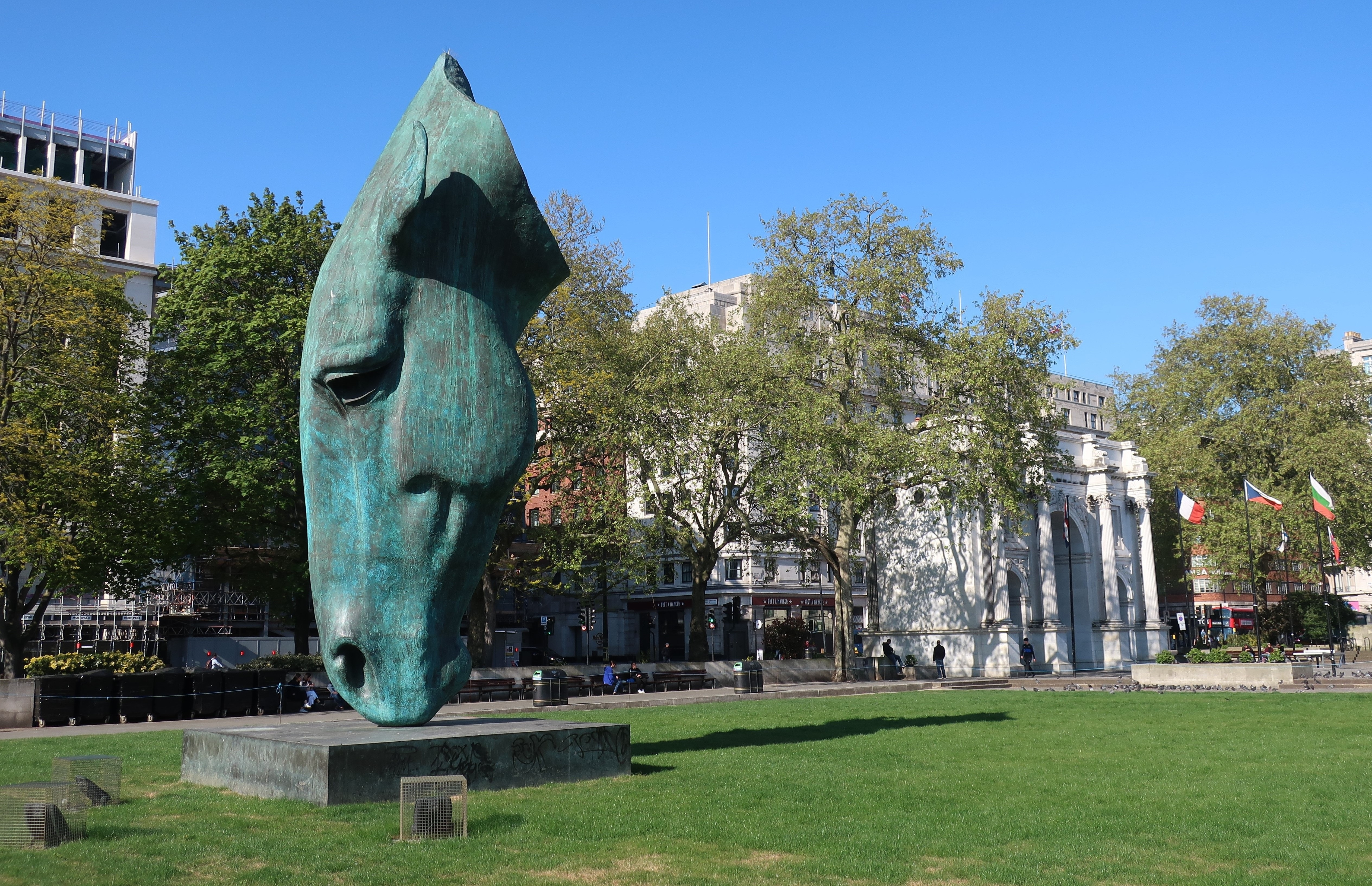 Still Water (2010) by Nic Fiddian-Green: Marble Arch in the background.